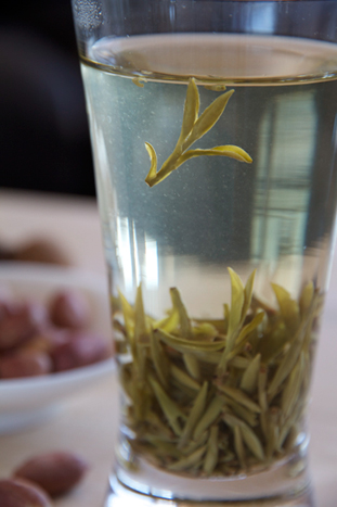 Long'jing, a Chinese green tea, being infused in a glass. The infusion colour may look light, but the taste can be quite intense.